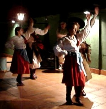 Folklore dance: Zamba. Argentina. Gaucho.